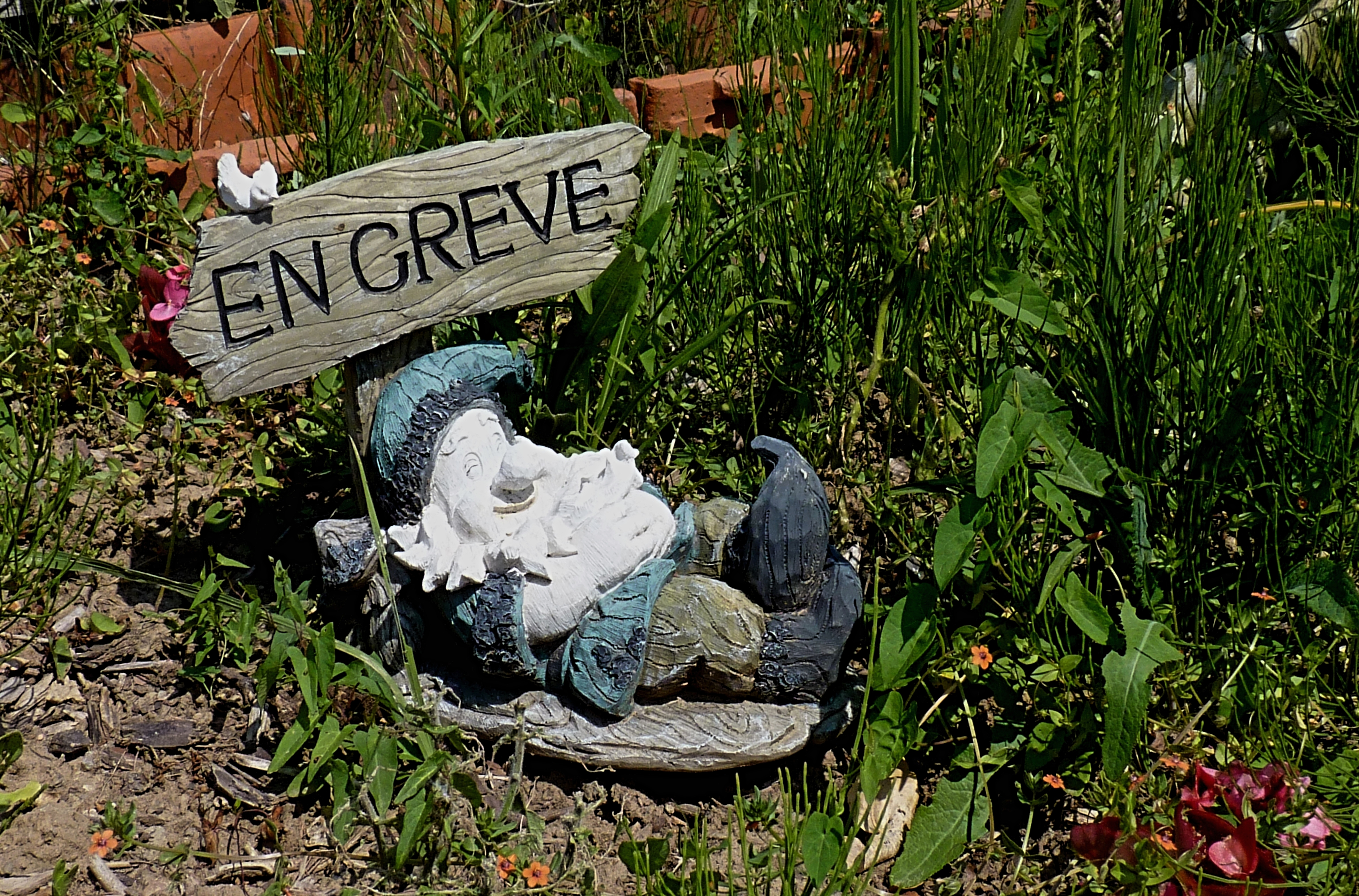 Garden gnome, in a allotment in Wattrelos, France.